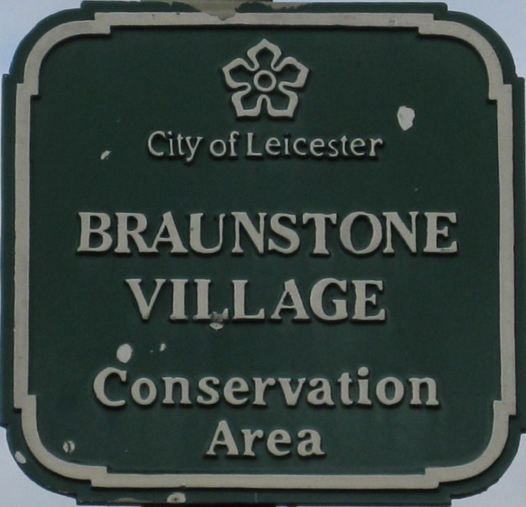 Braunstone Village Conservation Area sign on lamp post